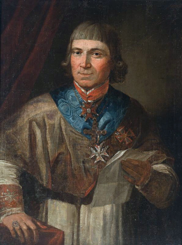 Jakub Ignacy Dederko (1753-1829)